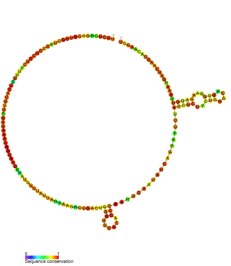 Secondary structure and sequence conservation image for CDKN2B-AS non coding RNA (RF01909). Nucleotide colouring indicates sequence conservation between the members of this family.